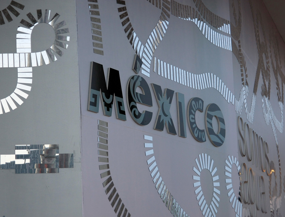 Façade of the Mexican Pavilion at Expo 2008 Zaragoza.